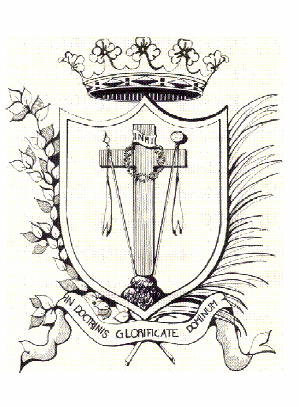 Emblem of Fathers of the Christian Doctrine congregation, scanned from a book pub. 1847